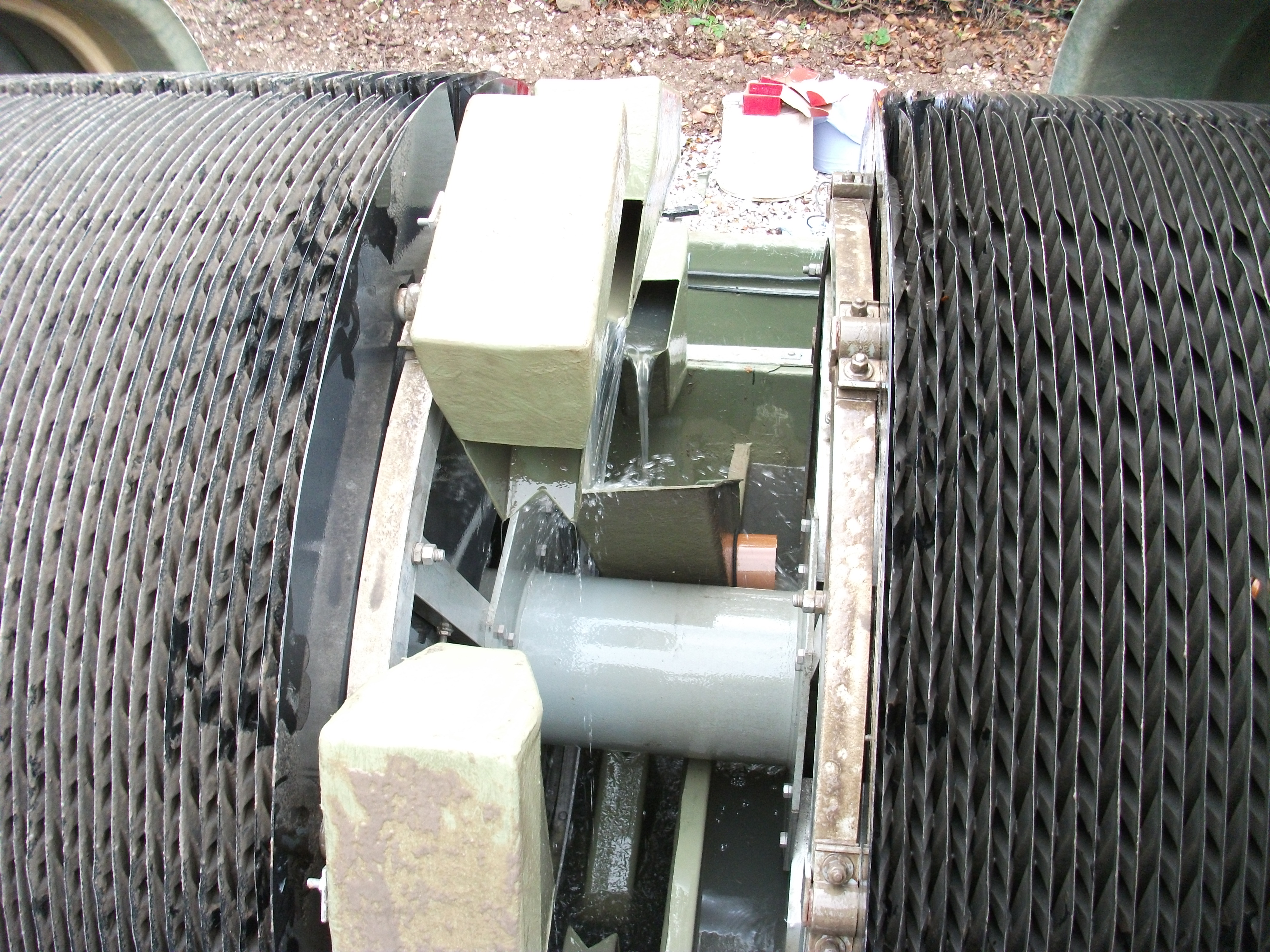 A gradual transition from bege to brown from left to right indicates a biomass that changes from Carbon metabolizing to nitrifying.